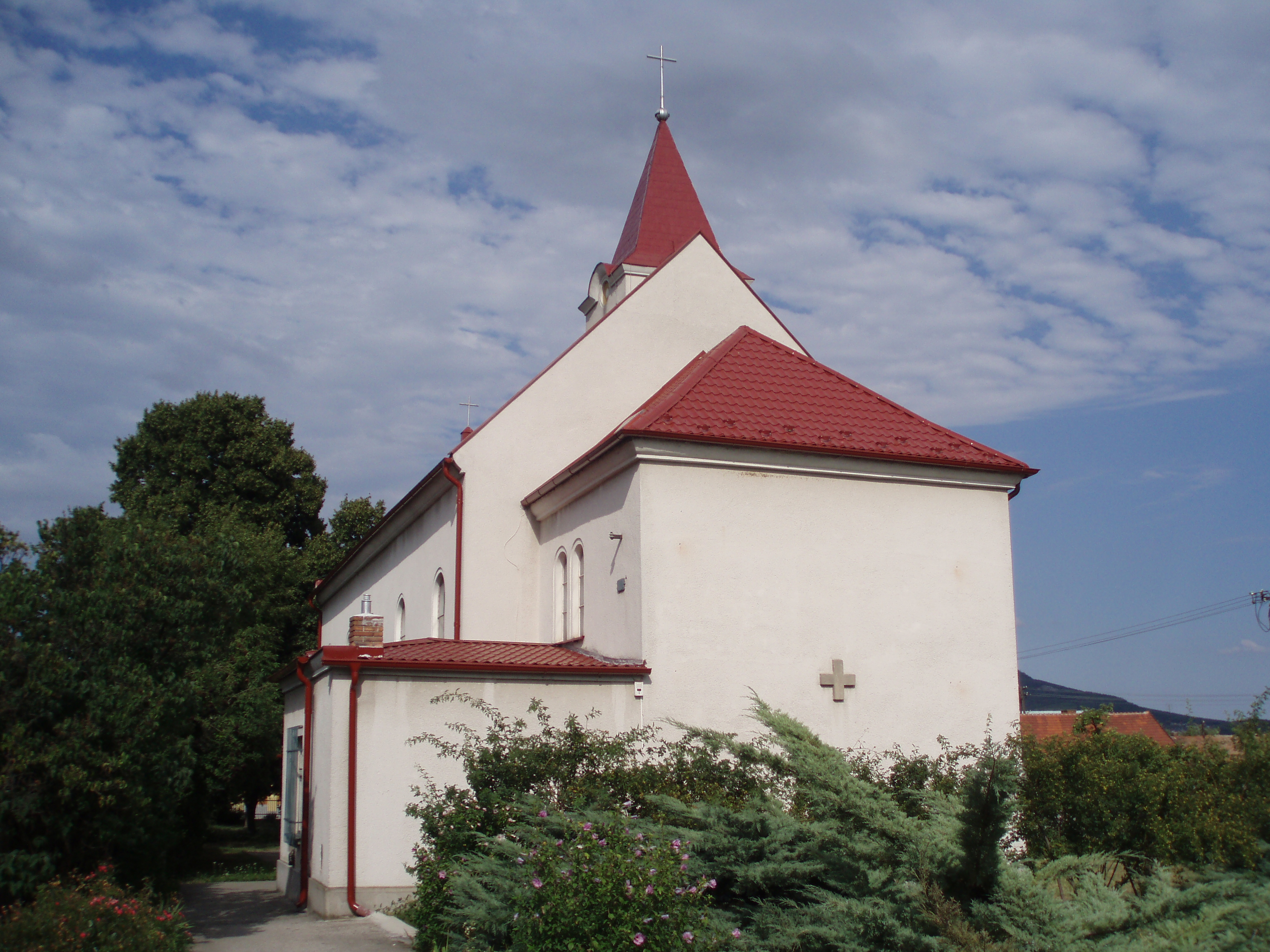 Church in Lužianky